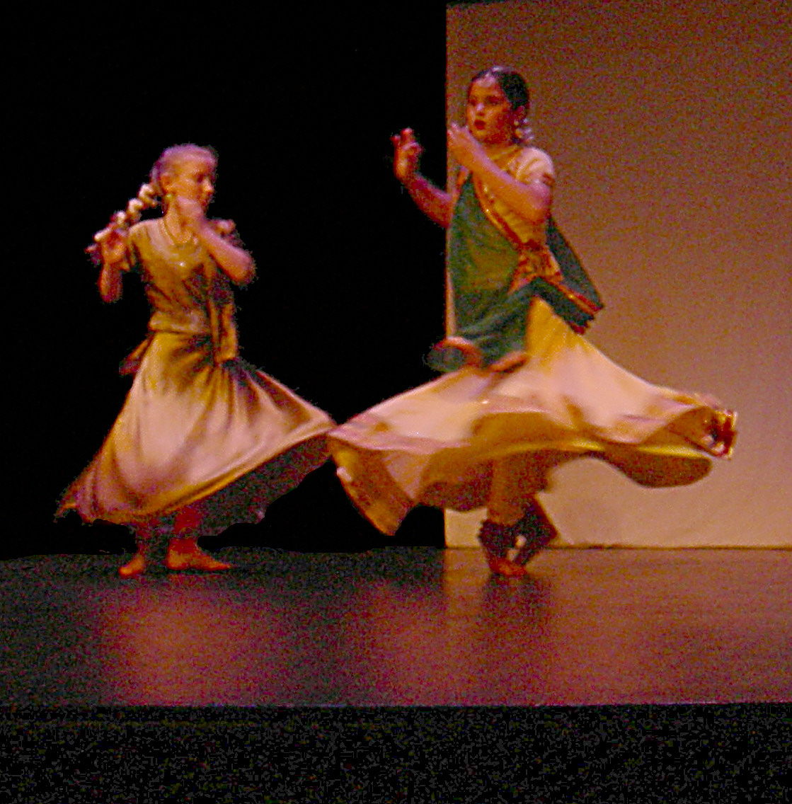 Lecture-demonstration of Kathak dance at the Ethnic Cultural Theater, University of Washington, Seattle, Washington as part of the Ragamala series. (Urmila Nagar lectured and played the harmonium along with two accompanists, Brandon McIntosh, sarod and Annie Penta, tablas; younger dancers gave the demonstration). Identification of the individual dancers in this photo or their affiliations would be welcome. Please feel free to replace this statement with dancers' names and/or detailed description of this particular portion of the dance.